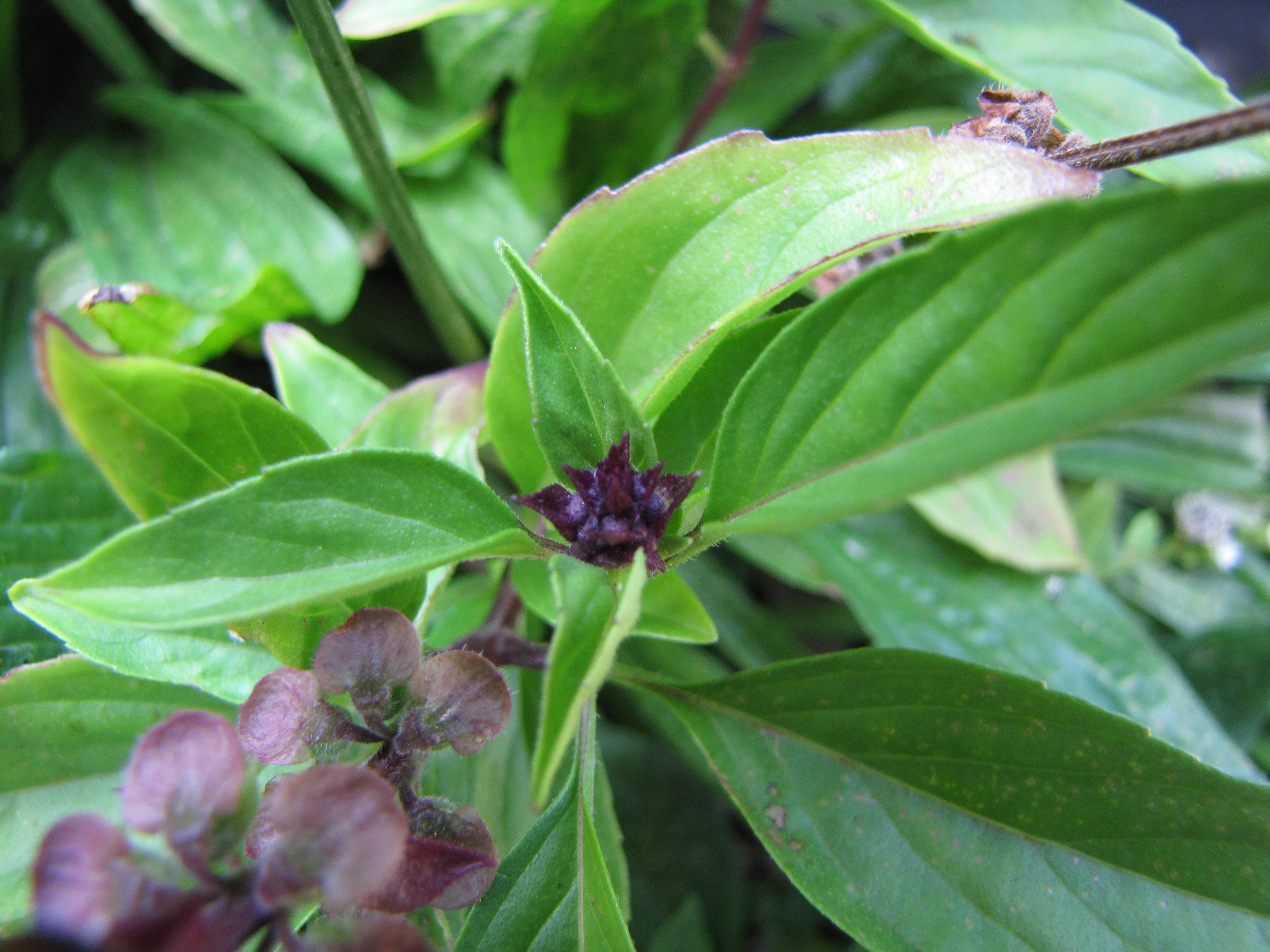 Ocimum basilicum var. thyrsiflorum (Thai basil, ornamental basil) Leaves and flower at Kilauea Pt NWR, Kauai, Hawaii. March 19, 2013 #130319-3097 Image Use Policy